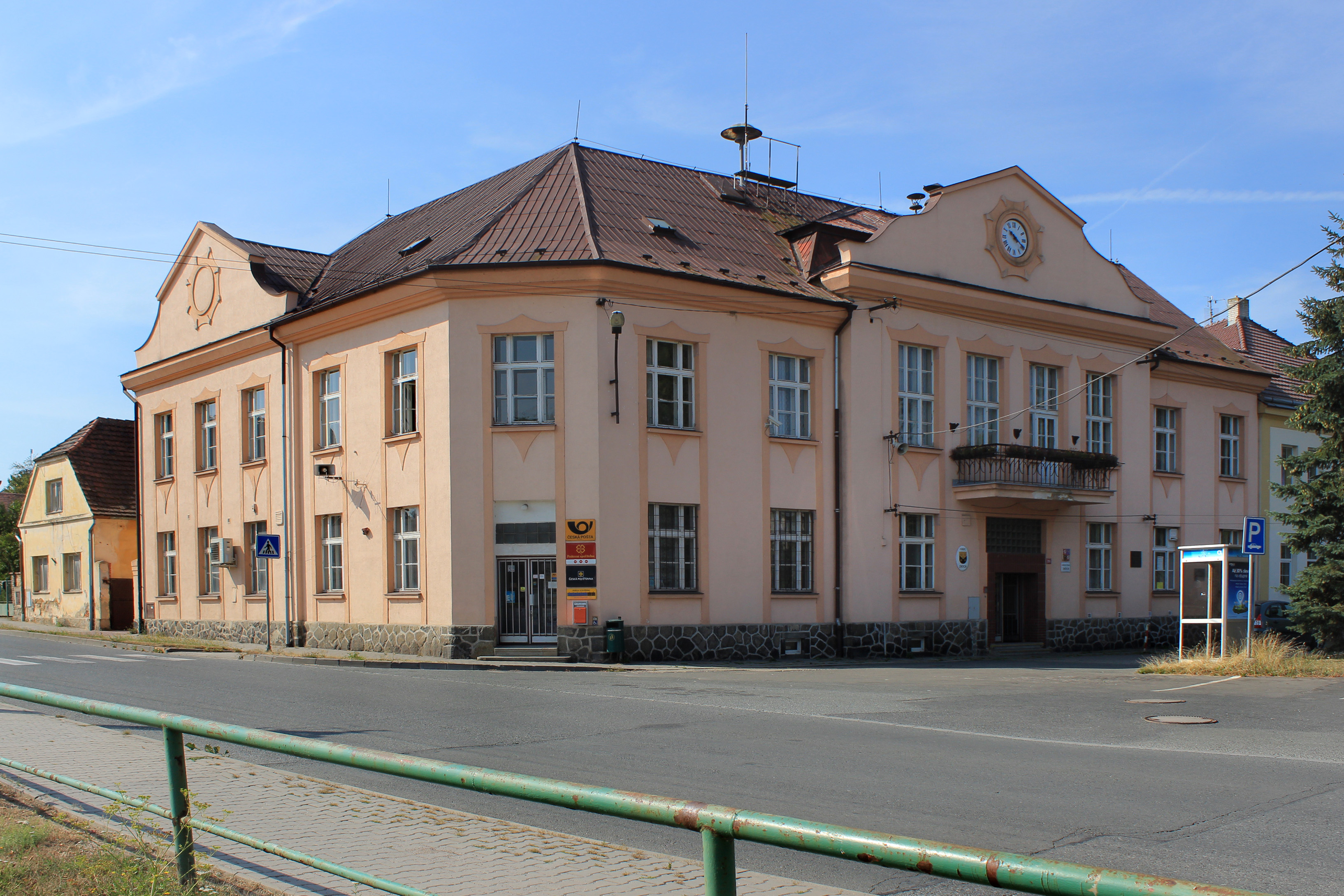 Municipal office in Zbůch, Czech Republic.